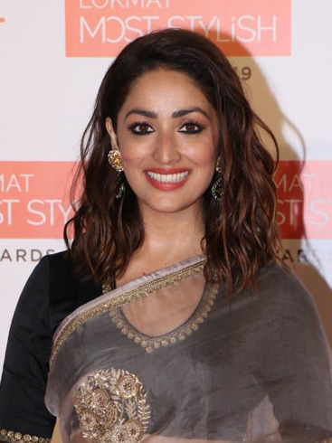 Yami Gautam at Lokmat Most Stylish Awards 2019